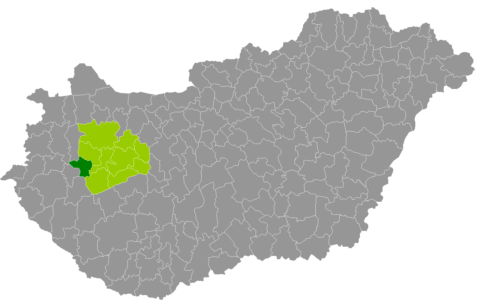 Location of Sümeg District, Veszprém, Hungary